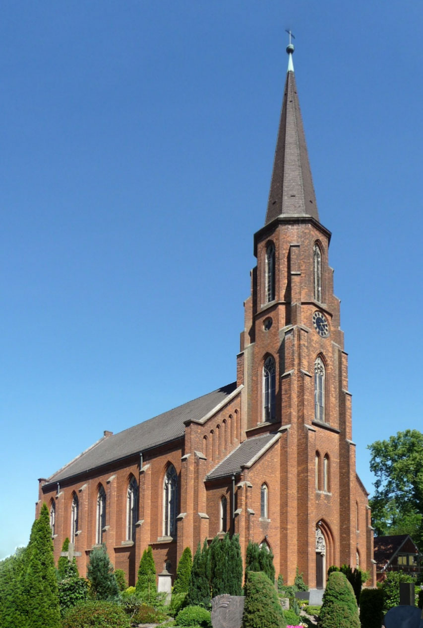 church St. Johann in Bremen-Oberneuland Das abgebildete Objekt ist ein geschütztes Kulturdenkmal in der Freien Hansestadt Bremen, mit der Nr. 1234 beim Landesamt für Denkmalpflege registriert.